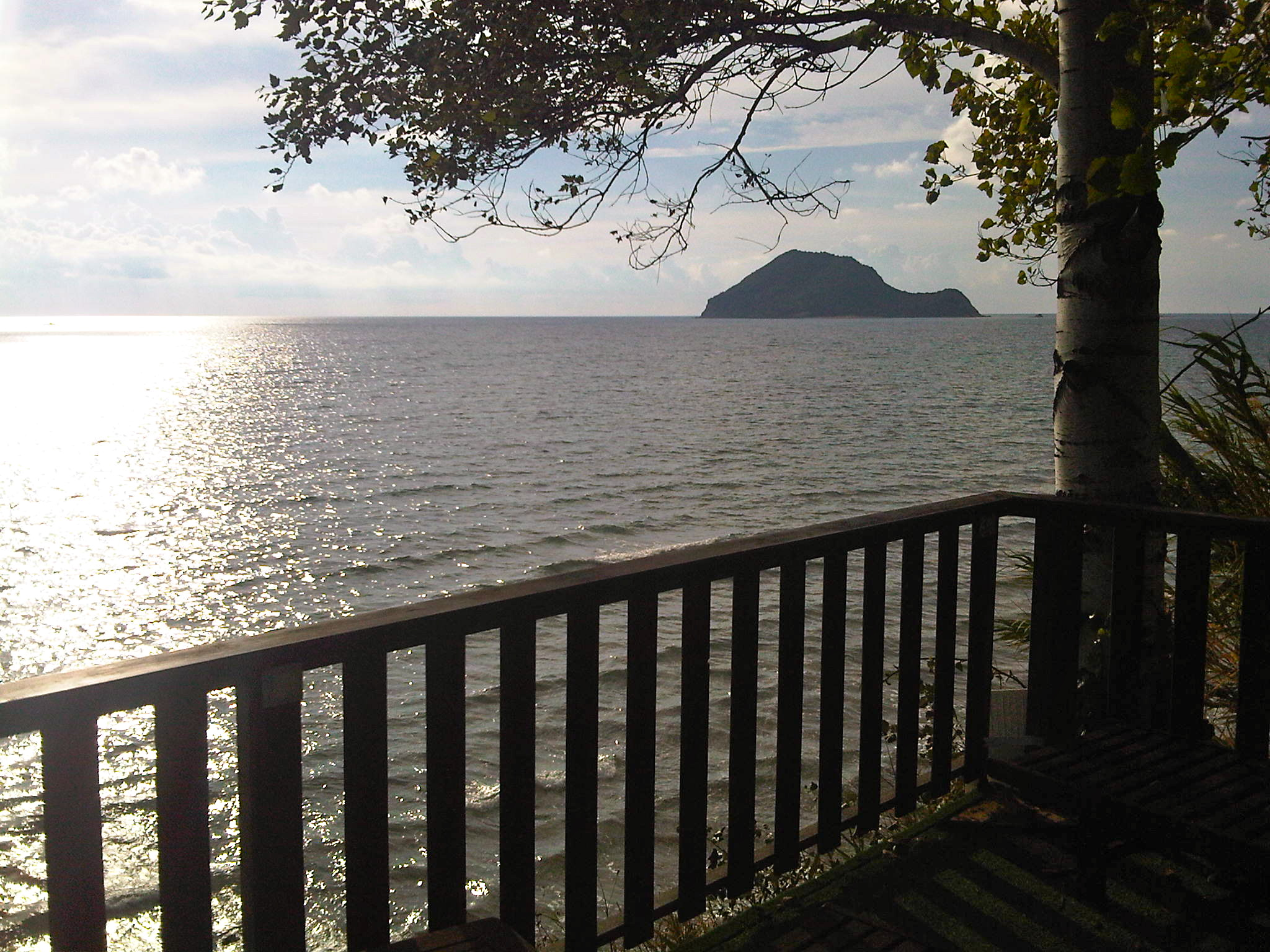 Island of Marathonisi, Zakynthos, Greece